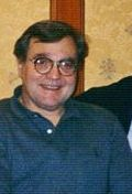 Austrian sociologist Silvio Lehmann at Kautsky-Kreis Seminar 1999